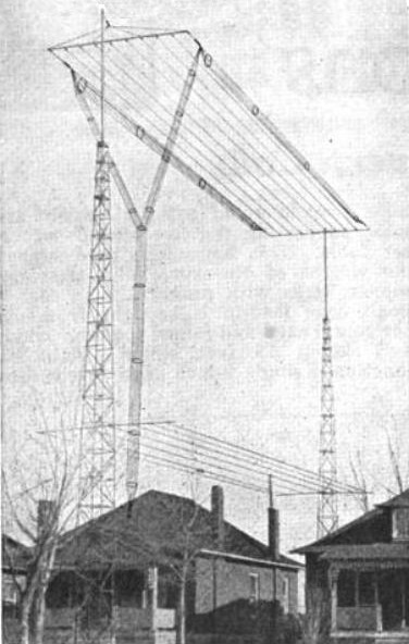 Wire radio transmitting antenna built by radio amateur William D. Reynolds, 9ZAF, of Denver, Colorado, USA around 1920, which was also the initial transmitting site for broadcasting station KLZ, first licensed March 10, 1922. It is an elaborate inverted-L antenna, which was widely used on the longwave radio bands popular during the early 20th century. It consists of ten 90 ft. parallel horizontal wires suspended like a "clothesline" between two 80 ft towers. Two 6-strand vertical "cage" conductors feed the antenna at the near end, joining together to a single cage, which drops down to the transmitter. The vertical "cage" line is the radiating element, functioning as an electrically short monopole antenna. The horizontal cables serve as a capacitive top-load, to increase the current in the vertical driven element, increasing radiated power. Using "cage" line made of a cylindrical array of parallel wires rather than a single wire reduces the resistance, which is important at low frequencies, where radiation resistance is so low that a large portion of the transmitter power can be wasted in ohmic resistance of the antenna or ground. Cage line also has higher capacitance to ground, increasing current in the antenna and output power. Cage line is also used for the two outer conductors of the horizontal top-load because they have more capacitance to ground and carry more current than the inner conductors. The second grid of horizontal wires, lower down on the antenna, is a counterpoise that serves as the ground for the transmitter. The other side of the transmitter's output is connected to it. It functions as a large capacitor plate, with the conductive layers in the Earth serving as the other plate, allowing the RF current from the transmitter to pass into the ground. Counterpoises often work better than physical grounds at low frequencies, when the soil has high resistance.